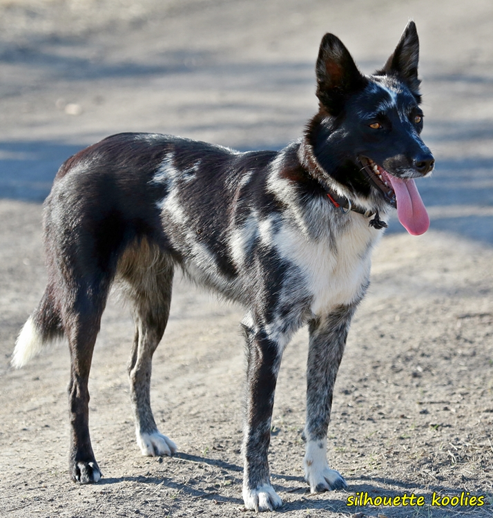 Black Merle Koolie (Australian Koolie / German Coolie)